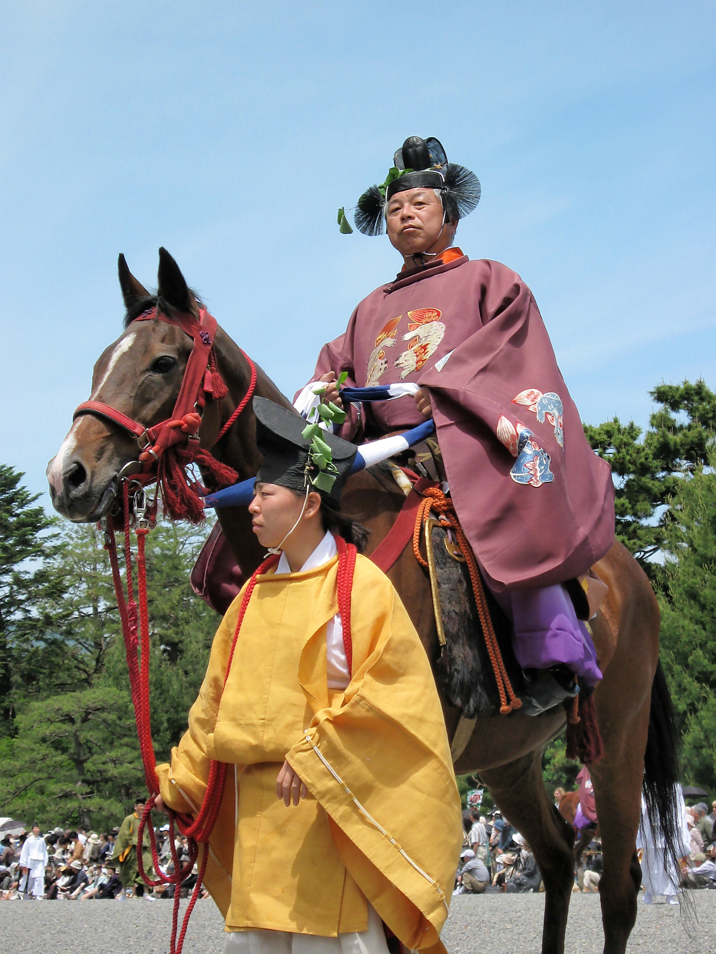 In Apr/May 2009, I took 15 days to walk all the way from Tokyo to Kyoto, roughly following the 546km long, ancient highway, the Nakasendo, alone. This picture was taken during the free week I had in Japan after the walk. Read about my preparations and my time in Japan at .